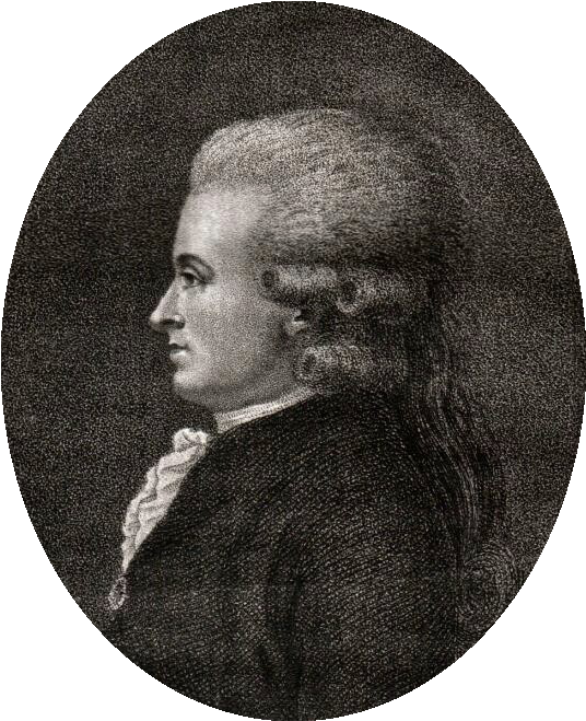 Portrait of Jean-Jacques Duval d'Eprémesnil, by François Bonneville.